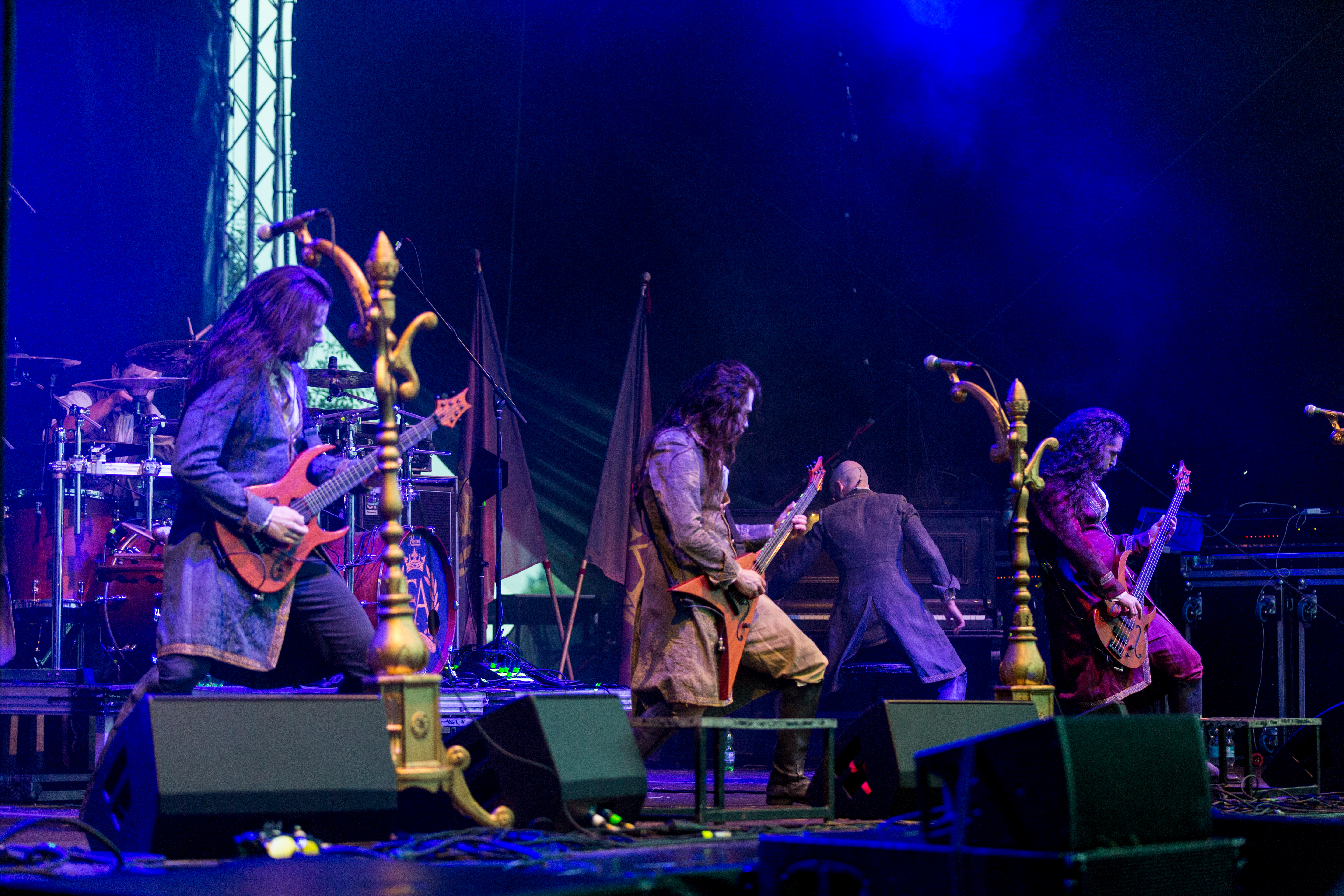 The Italian technical death metal band Fleshgod Apocalypse at the Metal Frenzy 2017 in Gardelegen/Germany.